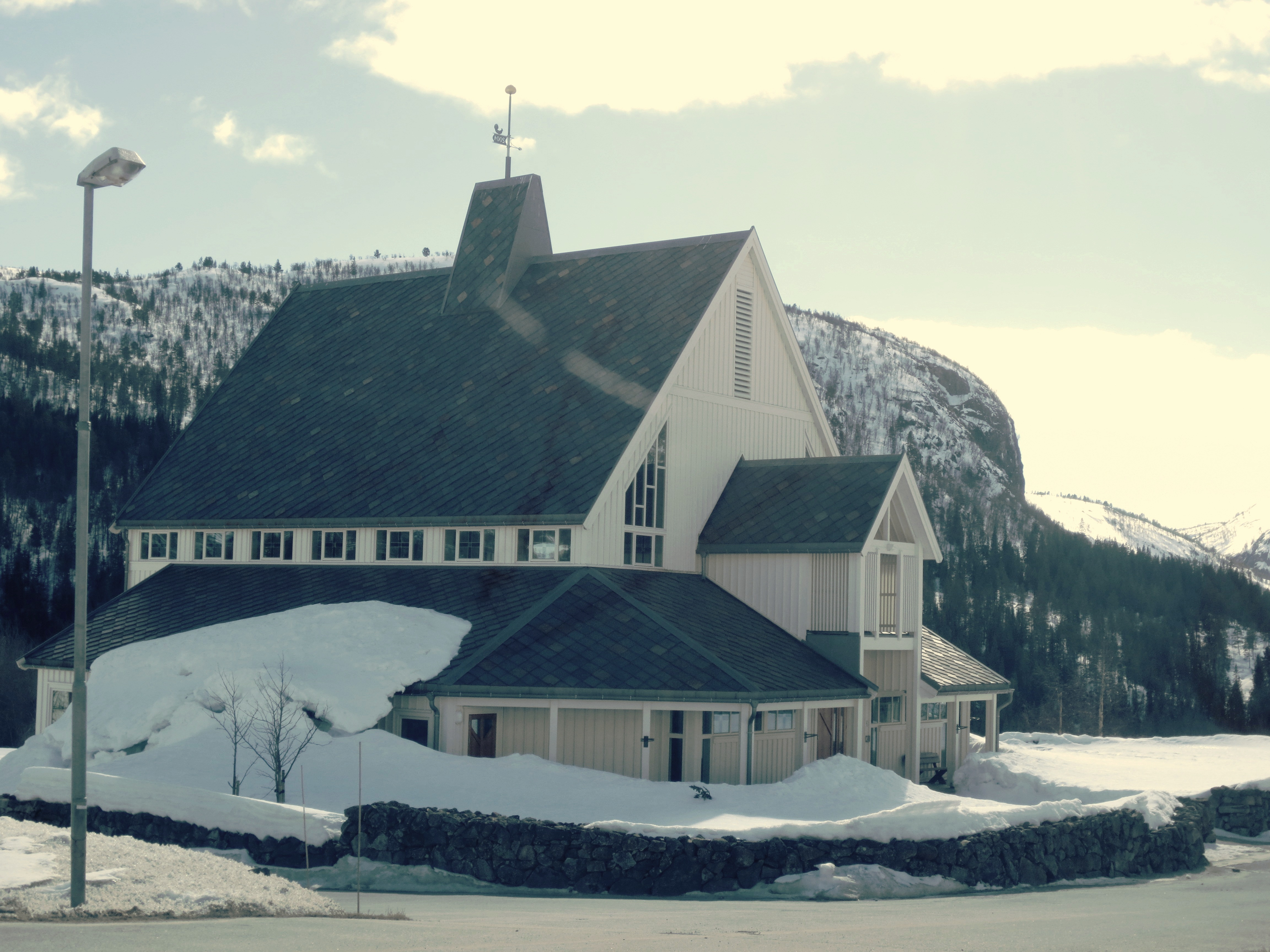 Image from Bykle, of Bykle New Church, Norway.